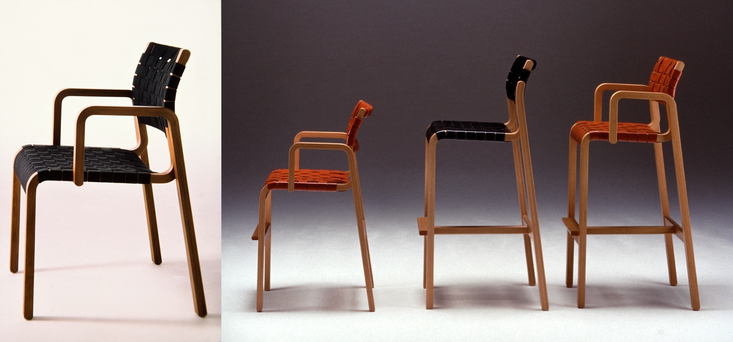 Works of KAWAKAMI Motomi 002-1976